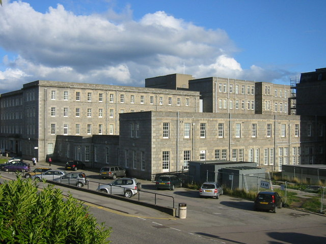 Aberdeen Royal Infirmary - granite building containing medical wards